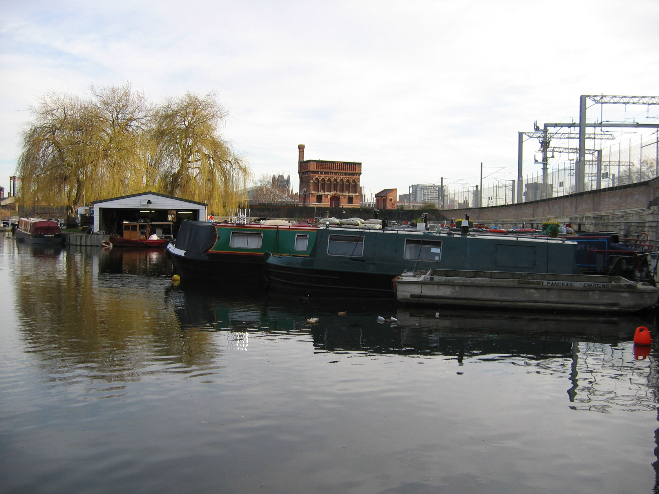 st pancras cruising club, regents canal, london